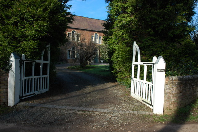 The Old Rectory, Whitbourne The Old Rectory at Whitbourne is an attractive red brick Georgian house with Venetian windows and is situated opposite the church.